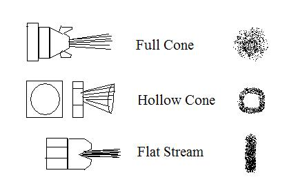 result of using different air gun spray nozzles